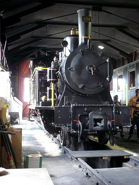 Interlaken